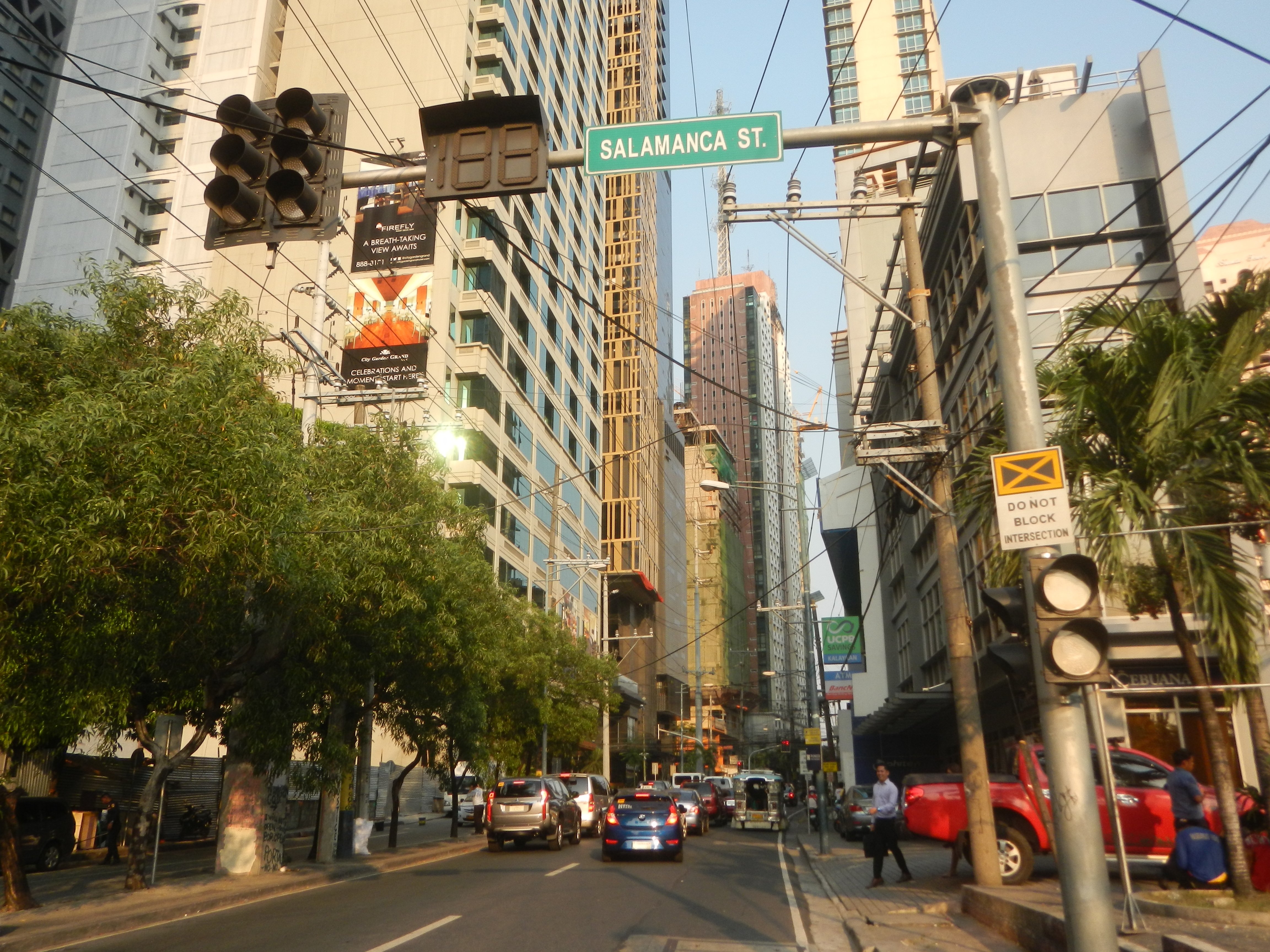 Salamanca Street and Neptune Street (Kalayaan Avenue, Makati City) List of hotels in Metro Manila Travelers Inn, City Garden Hotel, City Garden Grand Hotel 14°33'53"N 121°1'45"E Century City, Makati Century City Mall Century Properties Kalayaan Avenue Poblacion, Makati, Bel-Air Village Kalayaan Avenue to Makati Avenue to Senator Gil Puyat Avenue List of barangays of Metro Manila, Legislative districts of Makati, Poblacion, Makati beside Bel-Air 14°33'38"N 121°1'40"E Makati City Jupiter Street Papa John's Pizza Burger King Jupiter Street 14°33'40"N 121°1'47"E Jupiter Suite 14°33'44"N 121°1'40"E Papa John's 14°33'44"N 121°1'40"E Makati Avenue 14°33'32"N 121°1'35"E (Note: Judge Florentino Floro, the owner, to repeat, Donor Florentino Floro of all these photos hereby donate gratuitously, freely and unconditionally all these photos to and for Wikimedia Commons, exclusively, for public use of the public domain, and again without any condition whatsoever).